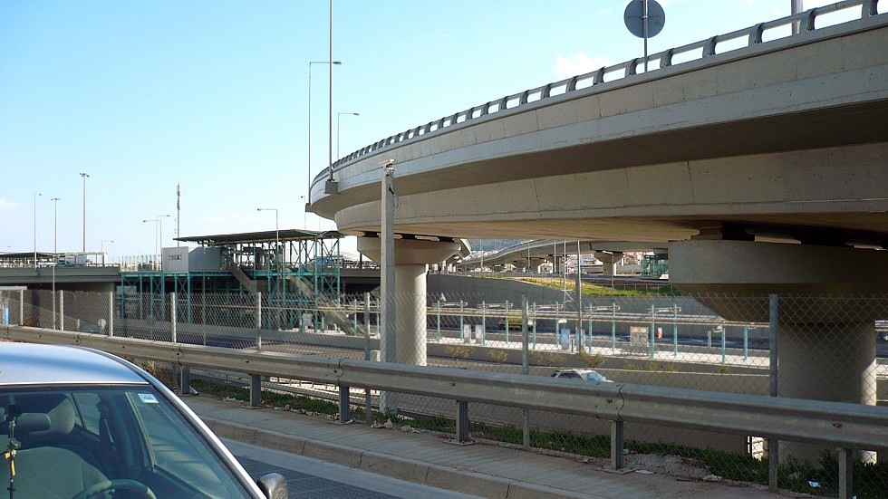 The picture depicts the 13th Attiki Odos Interchange "Doukissis Plakentias".